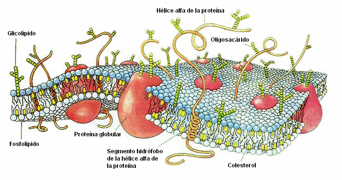 Schematic three dimensional cross section of a cell membrane.